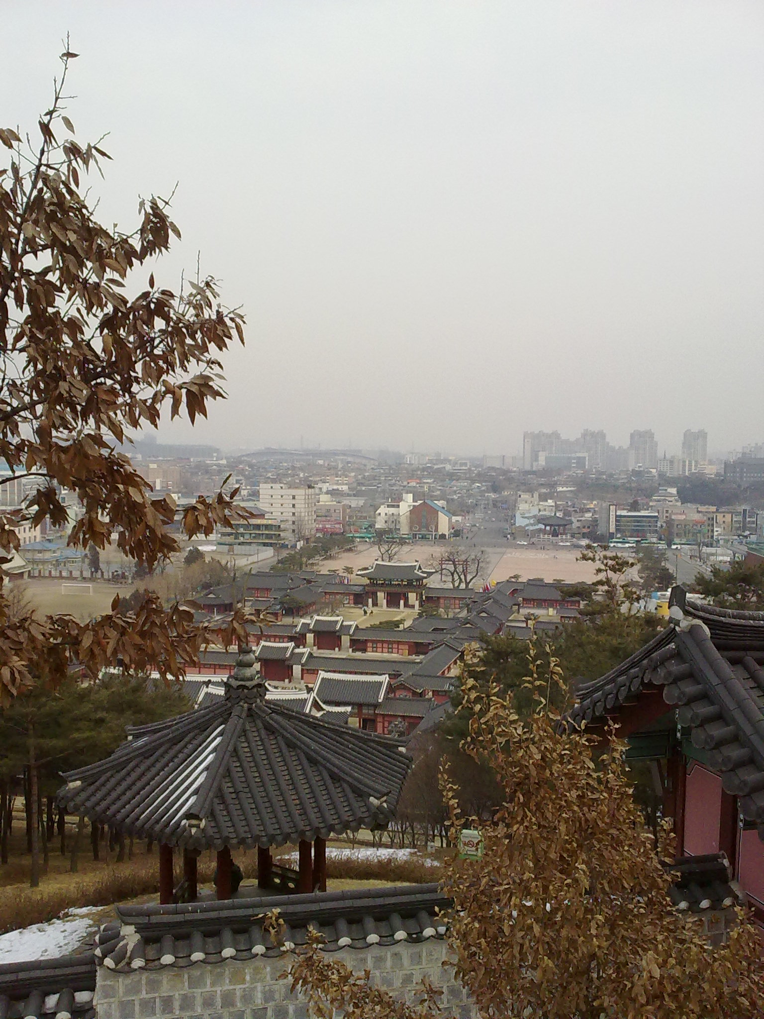 2013-04-29: View of Hwaseong Haenggung taken from Paldalsan (probably from Seojangdae)